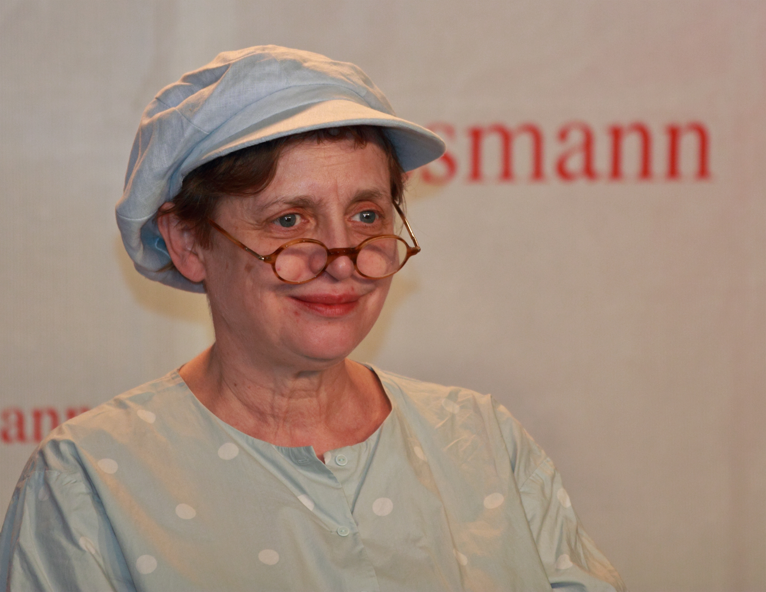 Katharina Thalbach, an actress from Germany